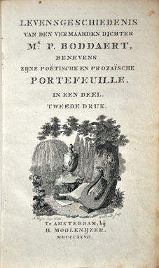 Frontispiece "Levensgeschiedenis van de vermaarden dichter Mr. P. Boddaert benevens zijne poëtische en prozaïsche portefeuille", Amsterdam, H. Moolenijzer, 1827.